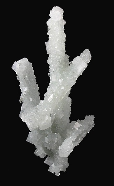 Prehnite, Apophyllite-(KF) Locality: Kandivali Quarry, Malad, Ward 38, Mumbai (Bombay), Mumbai District (Bombay District), Maharashtra, India (Locality at ) Size: 10.8 x 5.8 x 5.3 cm. You can see how elegant this gorgeous specimen is, but what you cannot see is the beautiful COLOR (the camera just could not pick it up) - a wonderful pastel light mint green. This is a hollow cast of prehnite that has pseudomorphed laumontite (seen in a different form from New Jersey due to the different form of the underlying laumontites), from India. The laumontite is completely gone, leaving these delicate casts, on which later, little blocky apophyllites grew to decorate the surface. Beautiful!